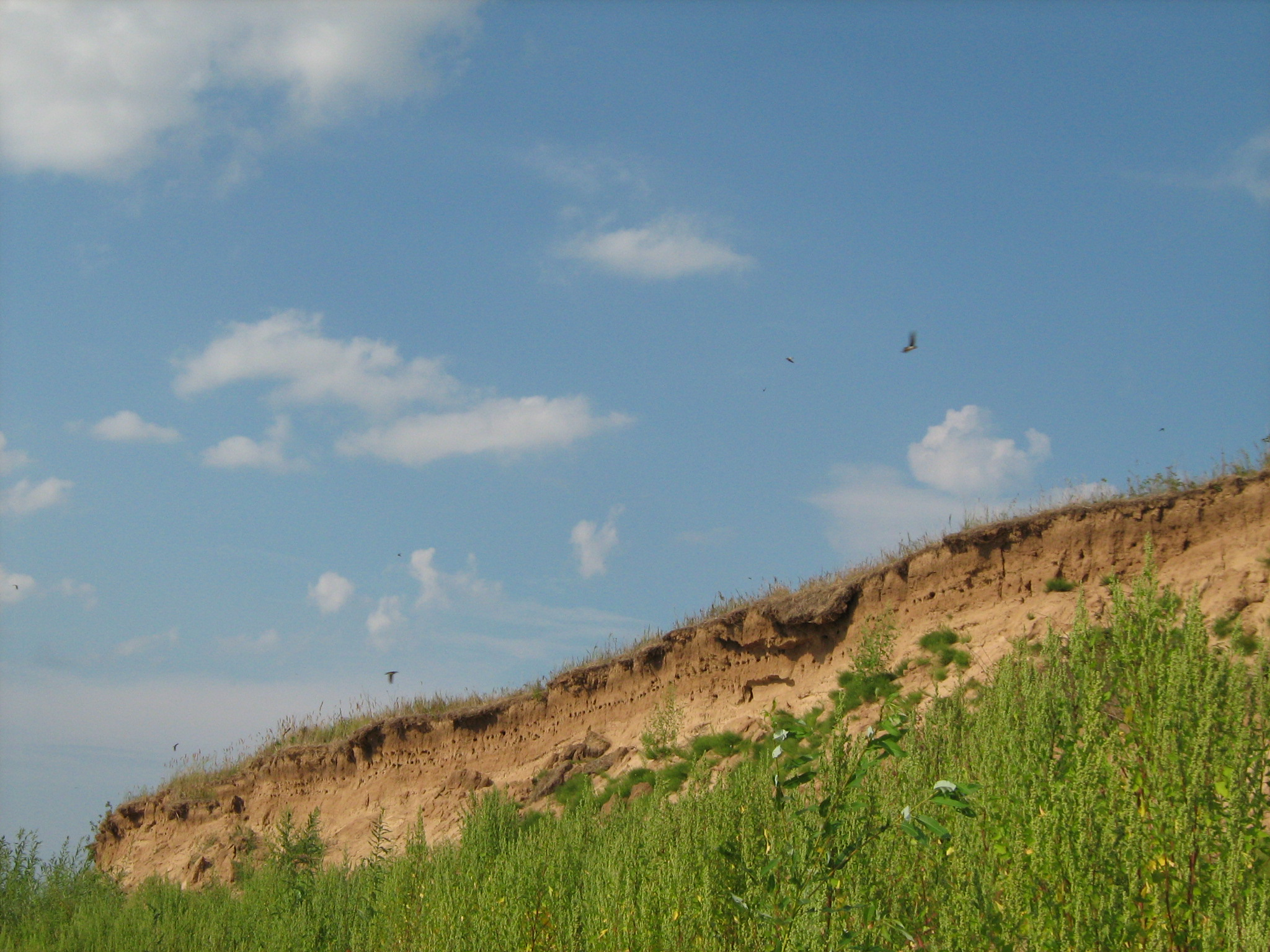 Nests of Sand Martins on the Volga shore, north-west of the Kstovo City Beach